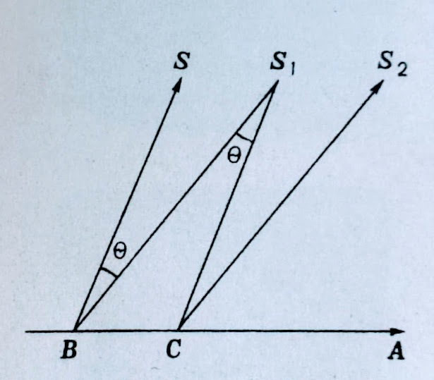 Aberration of light